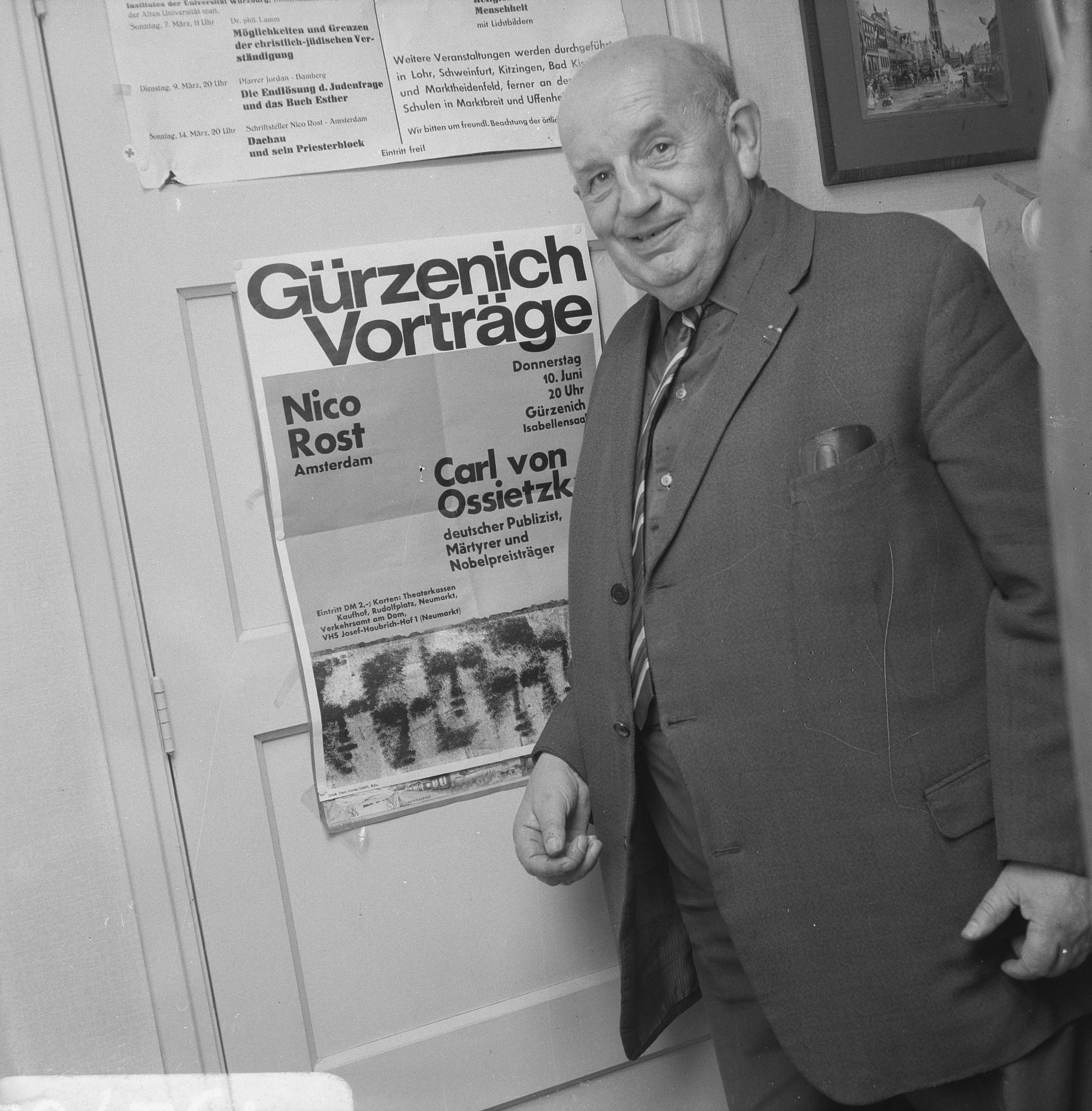 Nico Rost (1896-1967), Dutch writer, during his 70th birthday